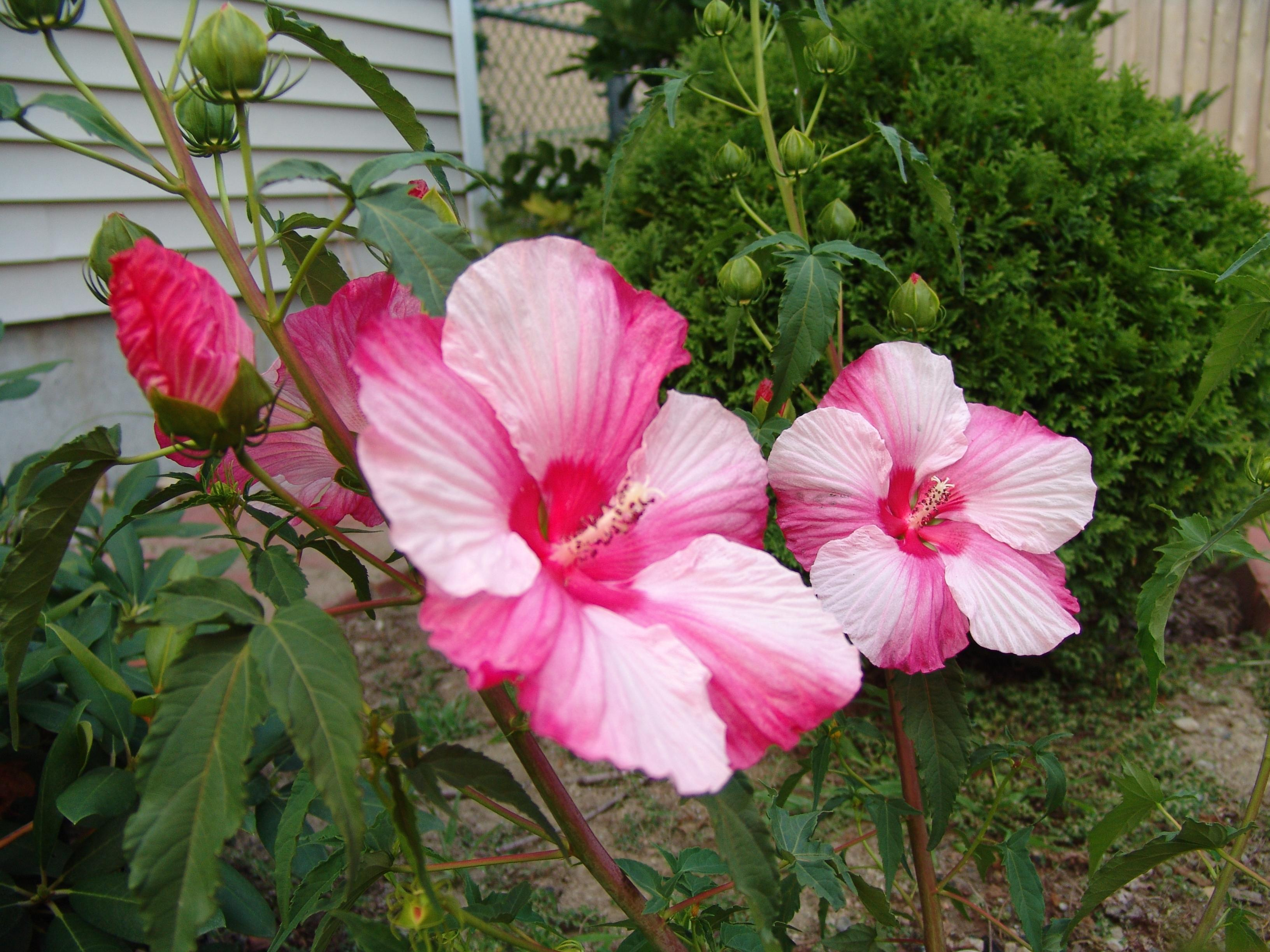 Hibiscus coccineus. Photo taken by IP Singh in Framingham, MA. Source: Taken by User:IP_Singh